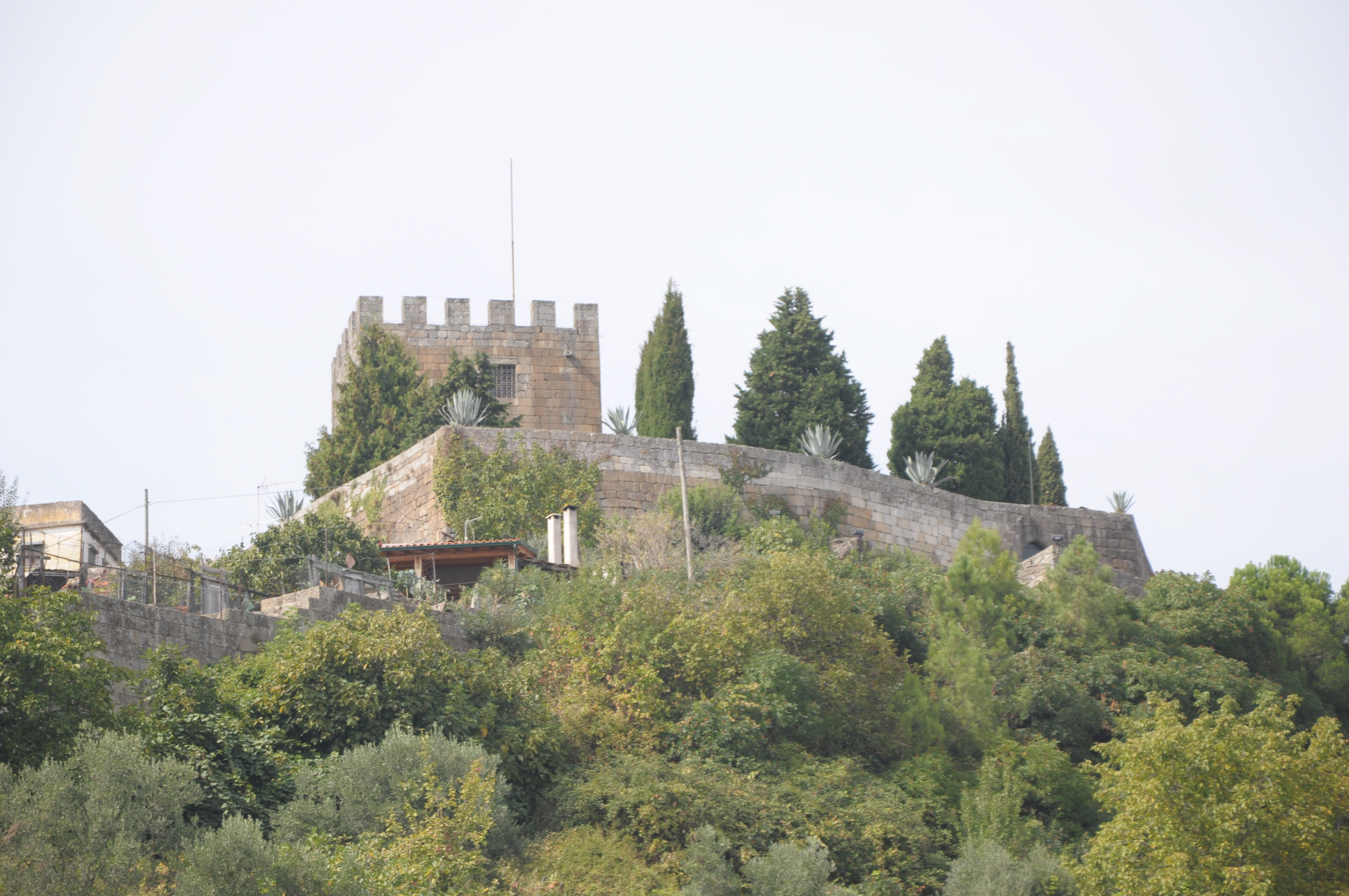 This file was uploaded for Wiki Loves Monuments in Portugal with the unique identifier 70699.